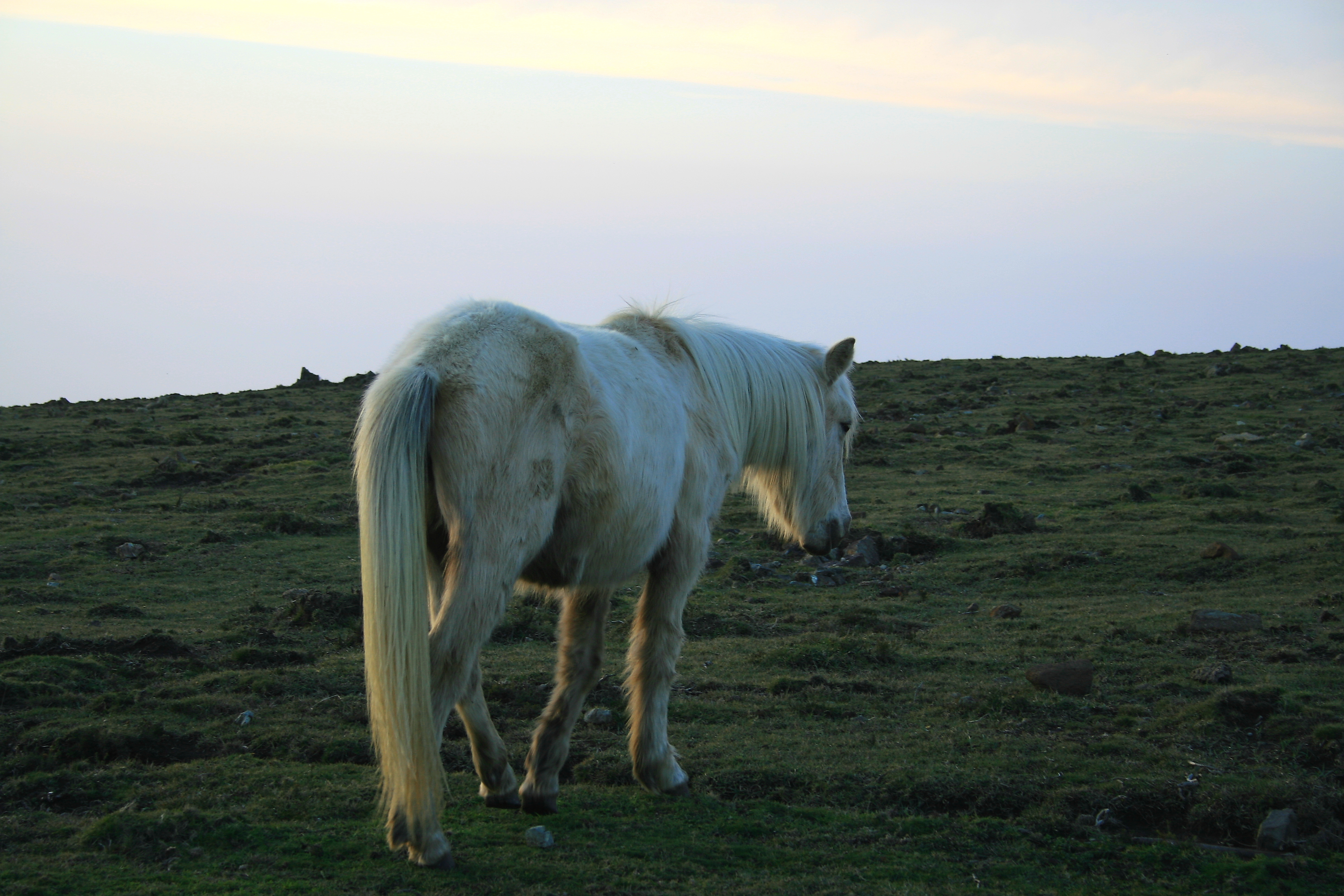 Tipico caballo gallego,.... muy parecido a los Asturcones Tipical Gallician horse,... small and long haired,... not a Pony just a mountain horse